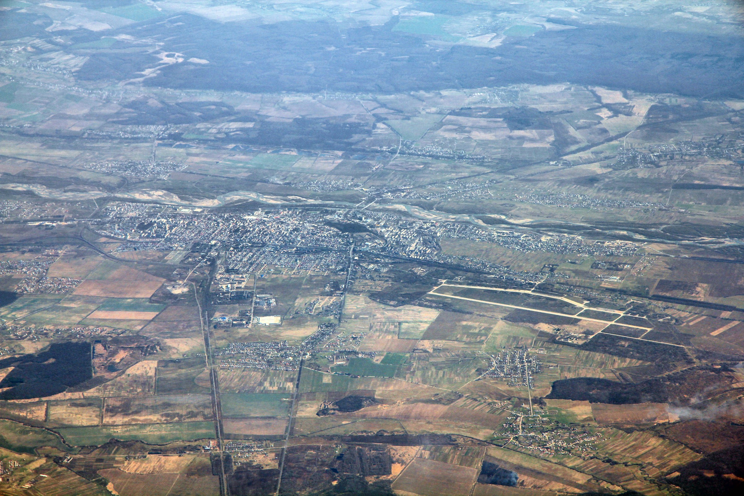 Stryi, Ukraine. Aerial view with Stryi Air Base.